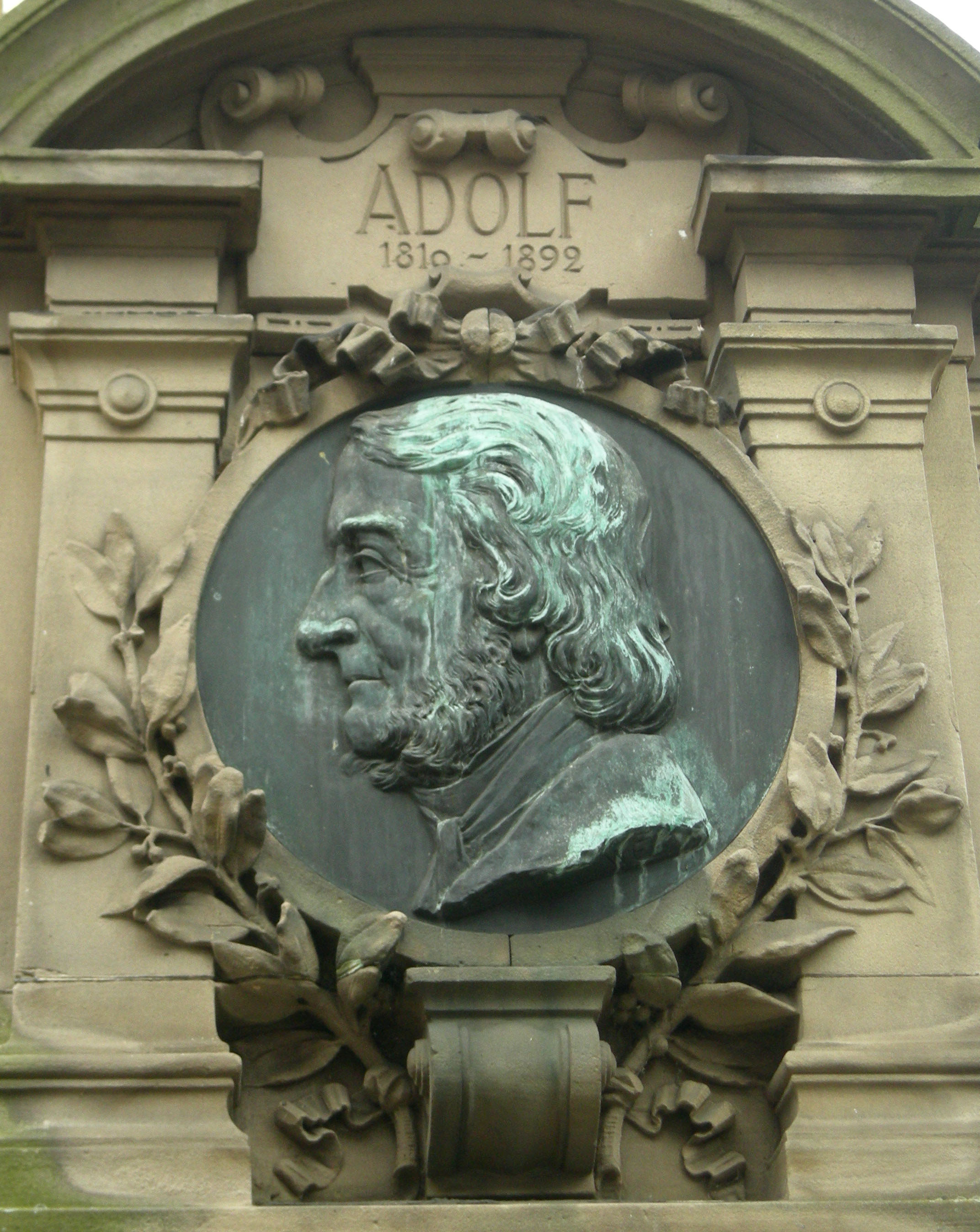 Alsatian poet and minister Adolf Stoeber (1810-1892), son of Daniel Ehrenfried Stoeber